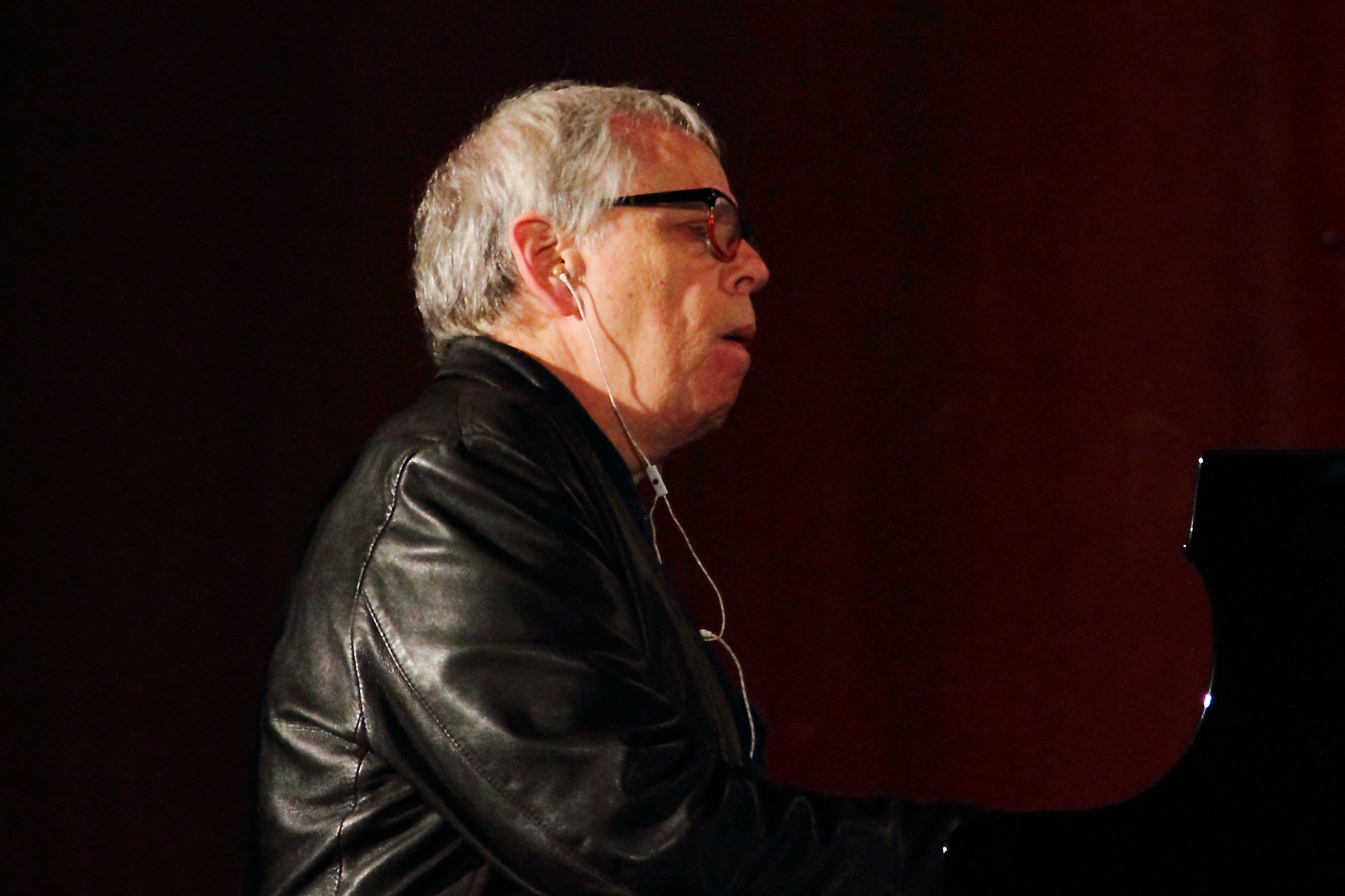 Kenny Werner at INNtöne Jazzfestival, Austria 2016.